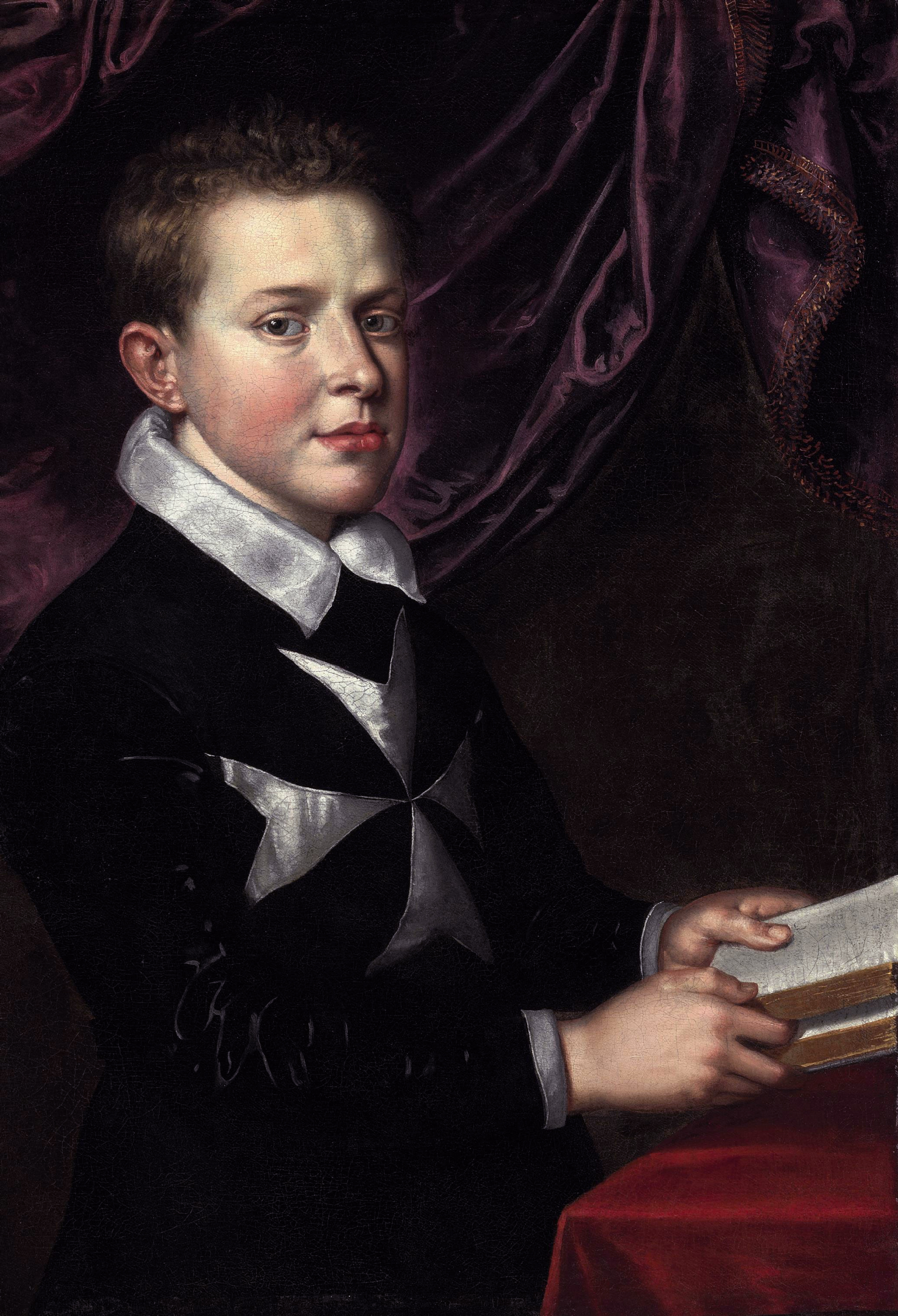 Ferdinando I Gonzaga as a boy 1600-1603 oil on canvas 81.2 x 56.5 cm.